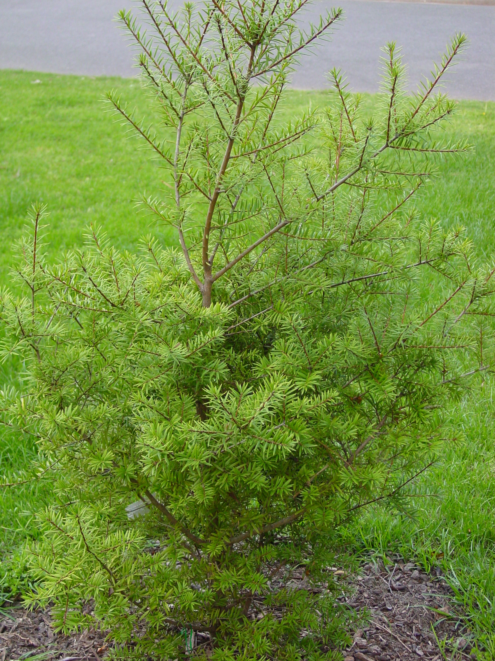 Keteleeria davidiana, a coniferous evergreen tree native to Taiwan and southeast China